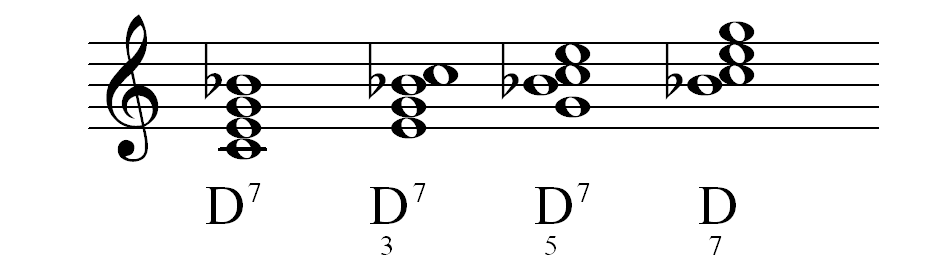 musical example of functional harmonic: dominant with seventh